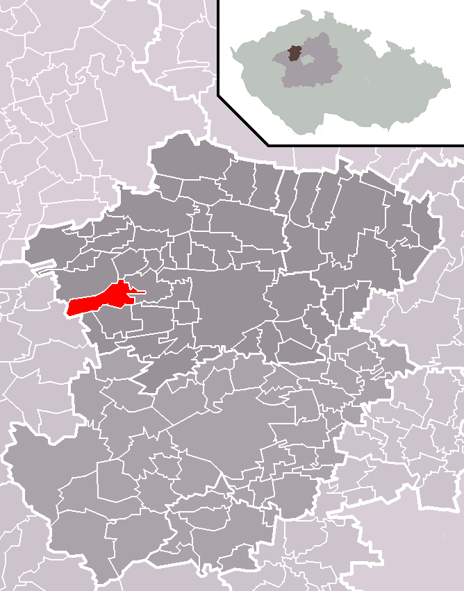 Location of Jedomělice municipality within Kladno District and administrative area of Slaný as a Municipality with Extended Competence.